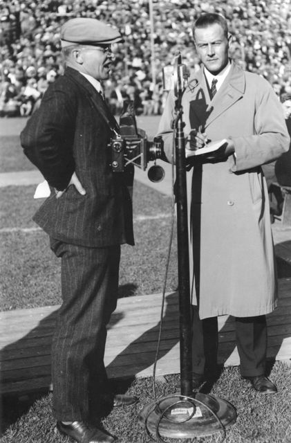 Lauri Pihkala and Martti Jukola (right) at the Sweden-Finland meetup in Stockholm in 1931